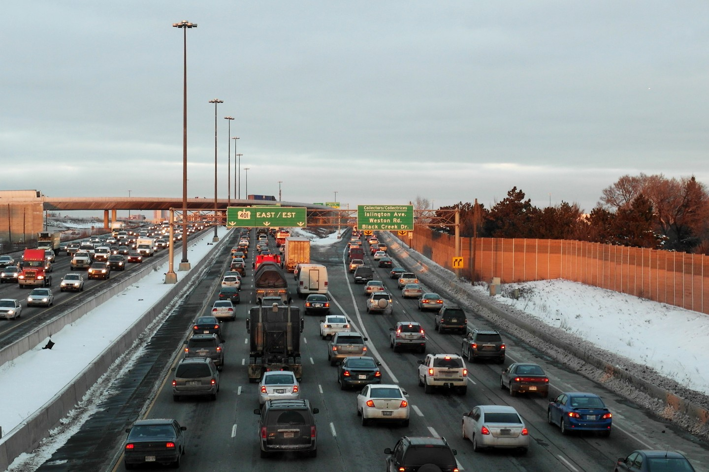 Highway 401 at the start of the primary Collector/Express system in Toronto.